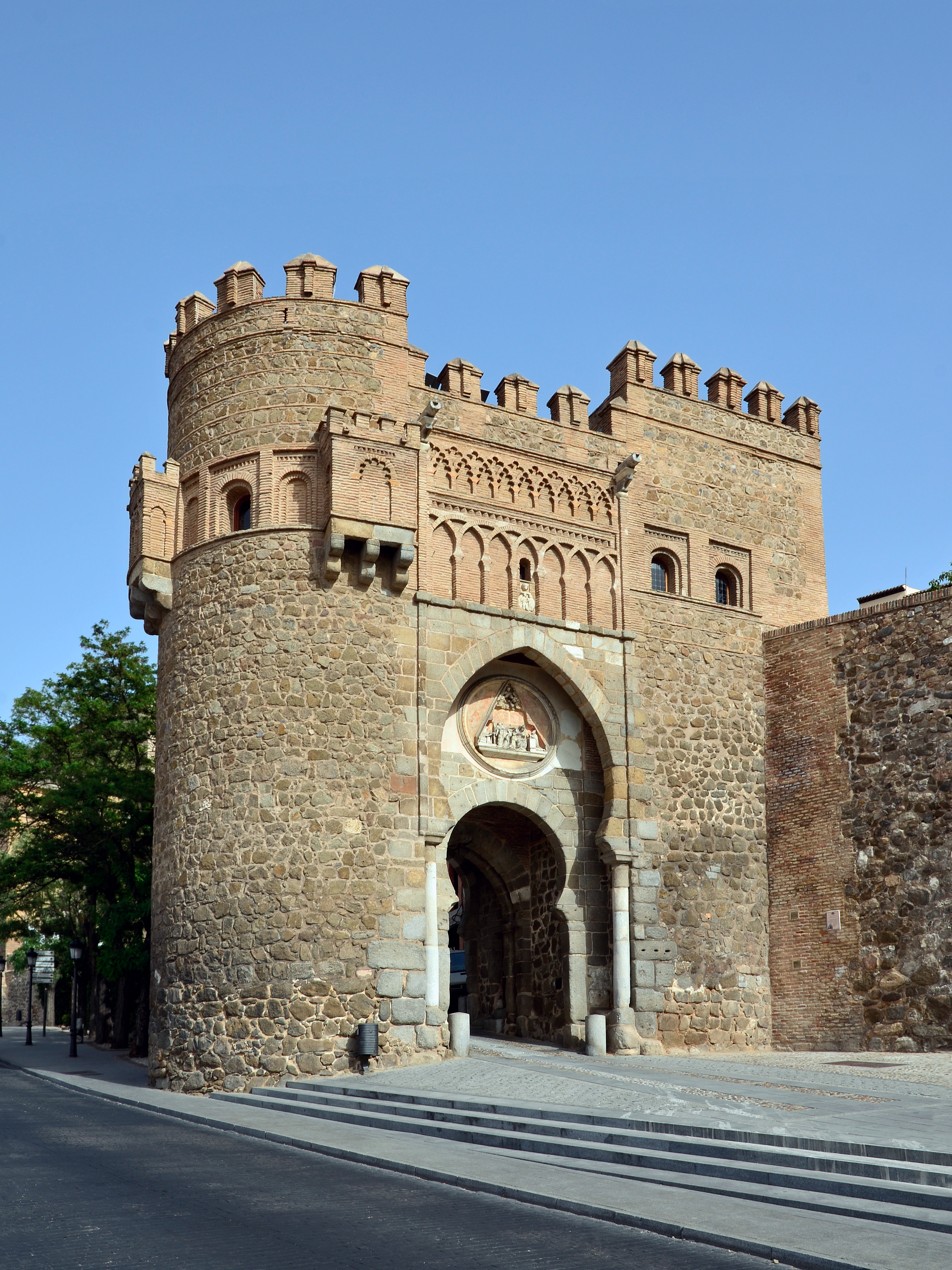 Puerta del Sol, Toledo, Spain.